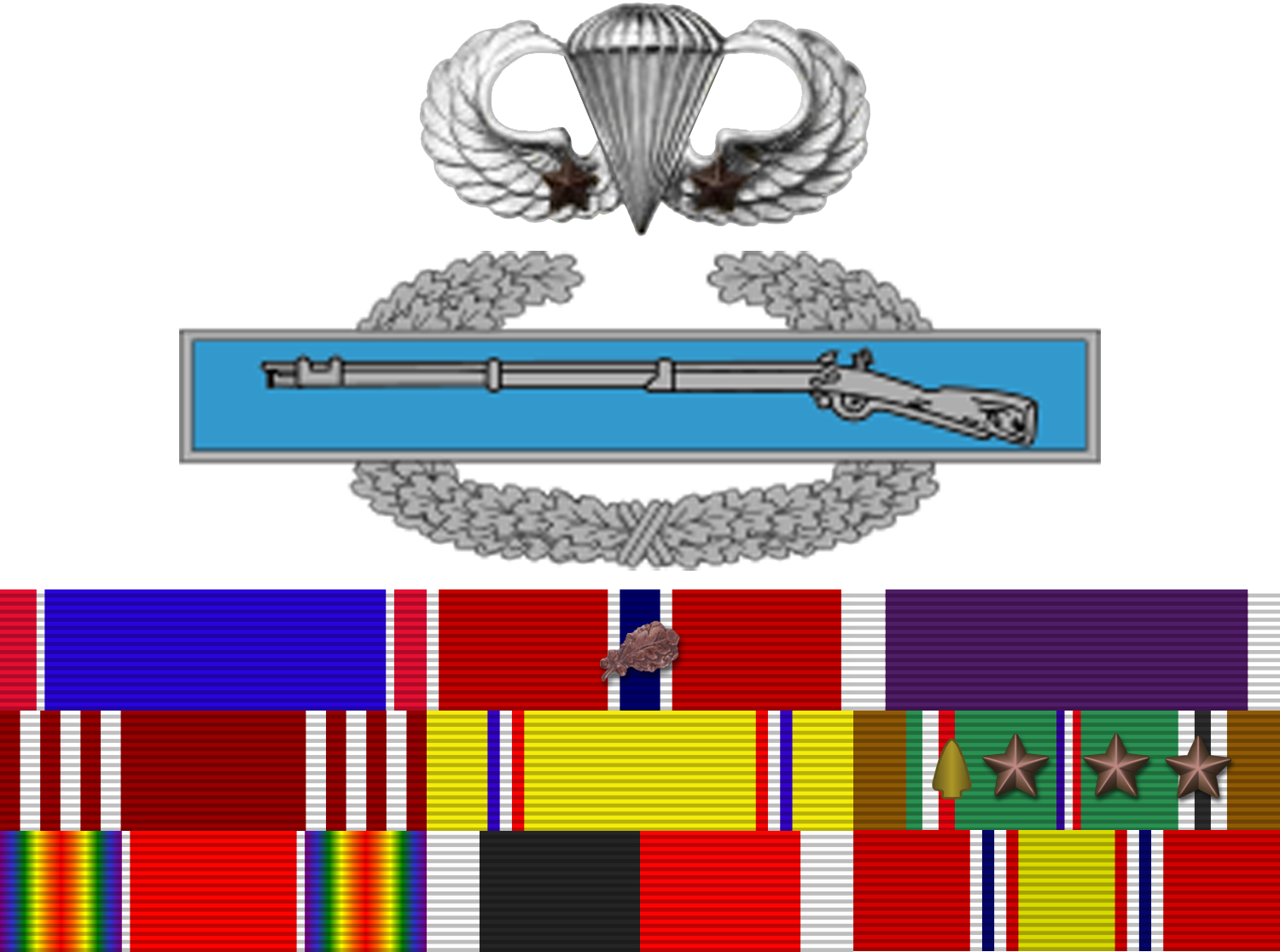 United States Army Major Richard Winters ribbons and badges. Made with Photoshop